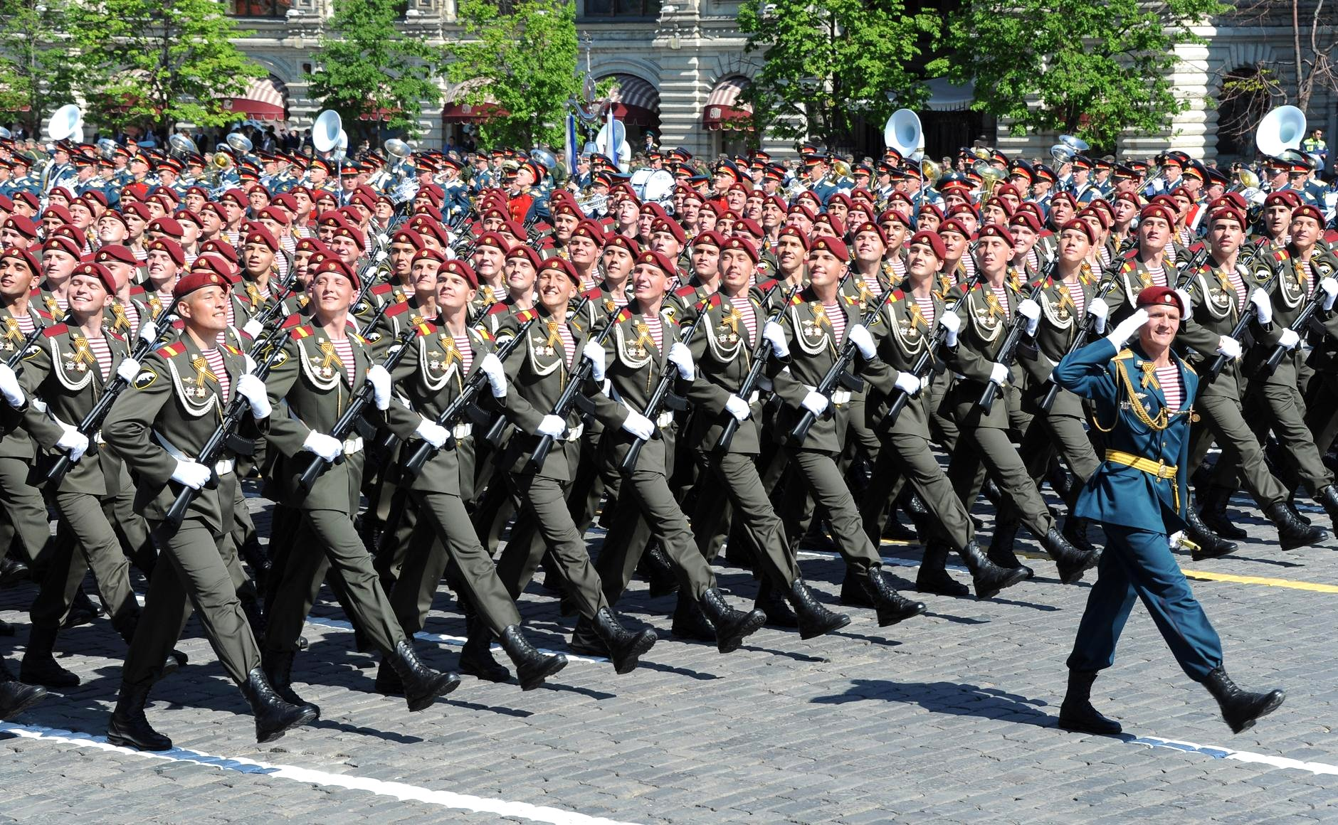 Military parade on Red Square 2016-05-09